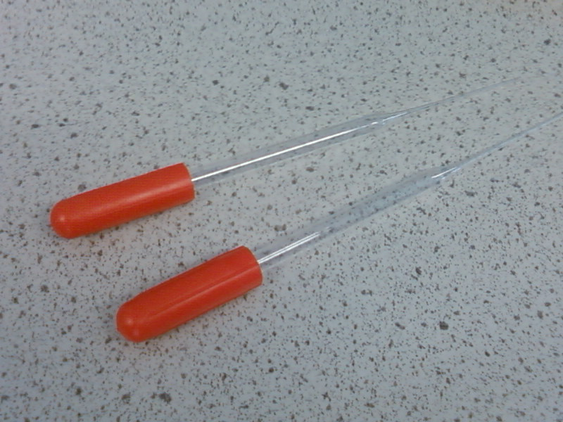 2 Pasteur pipettes